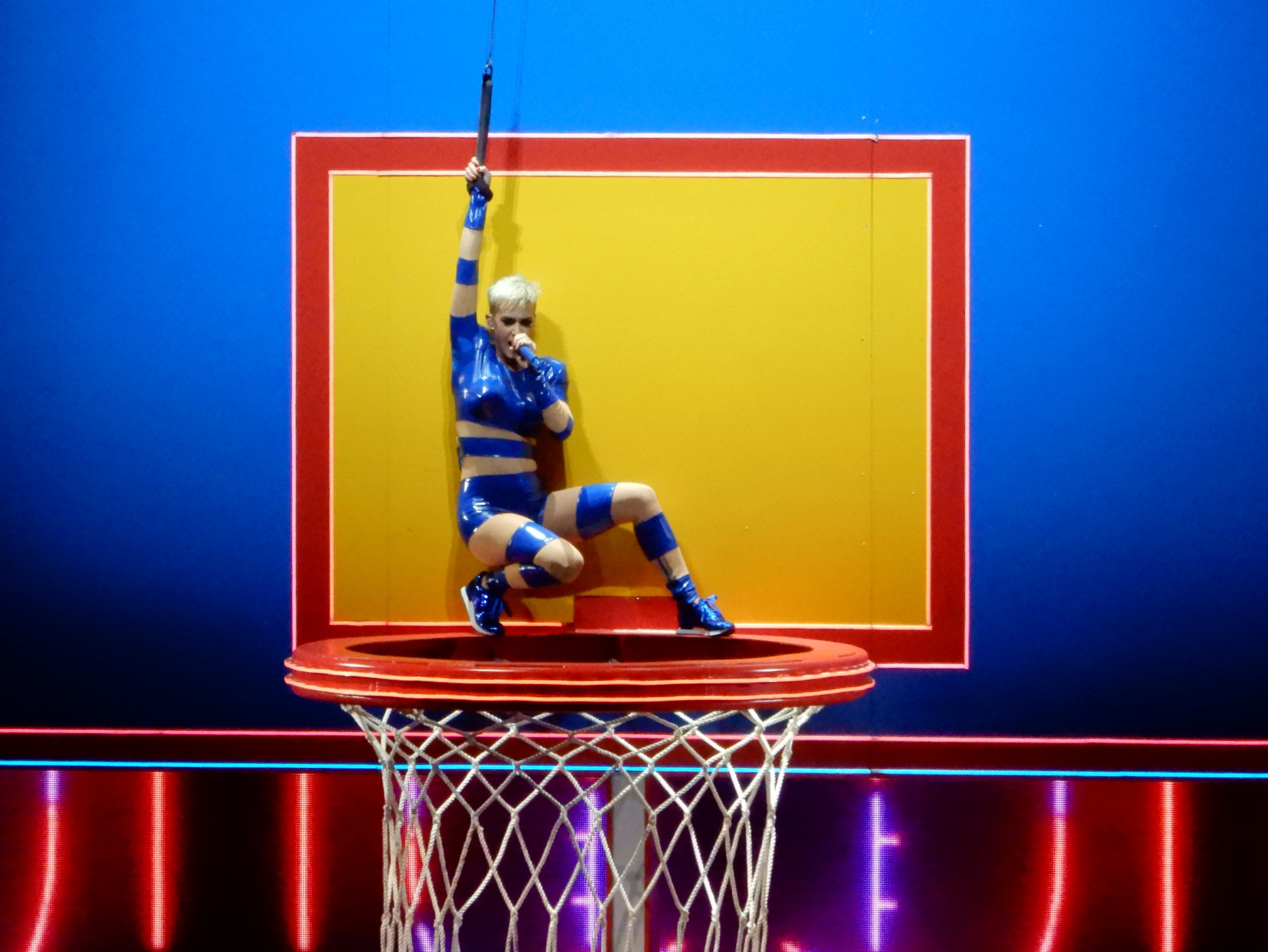 Katy Perry at Madison Square Garden